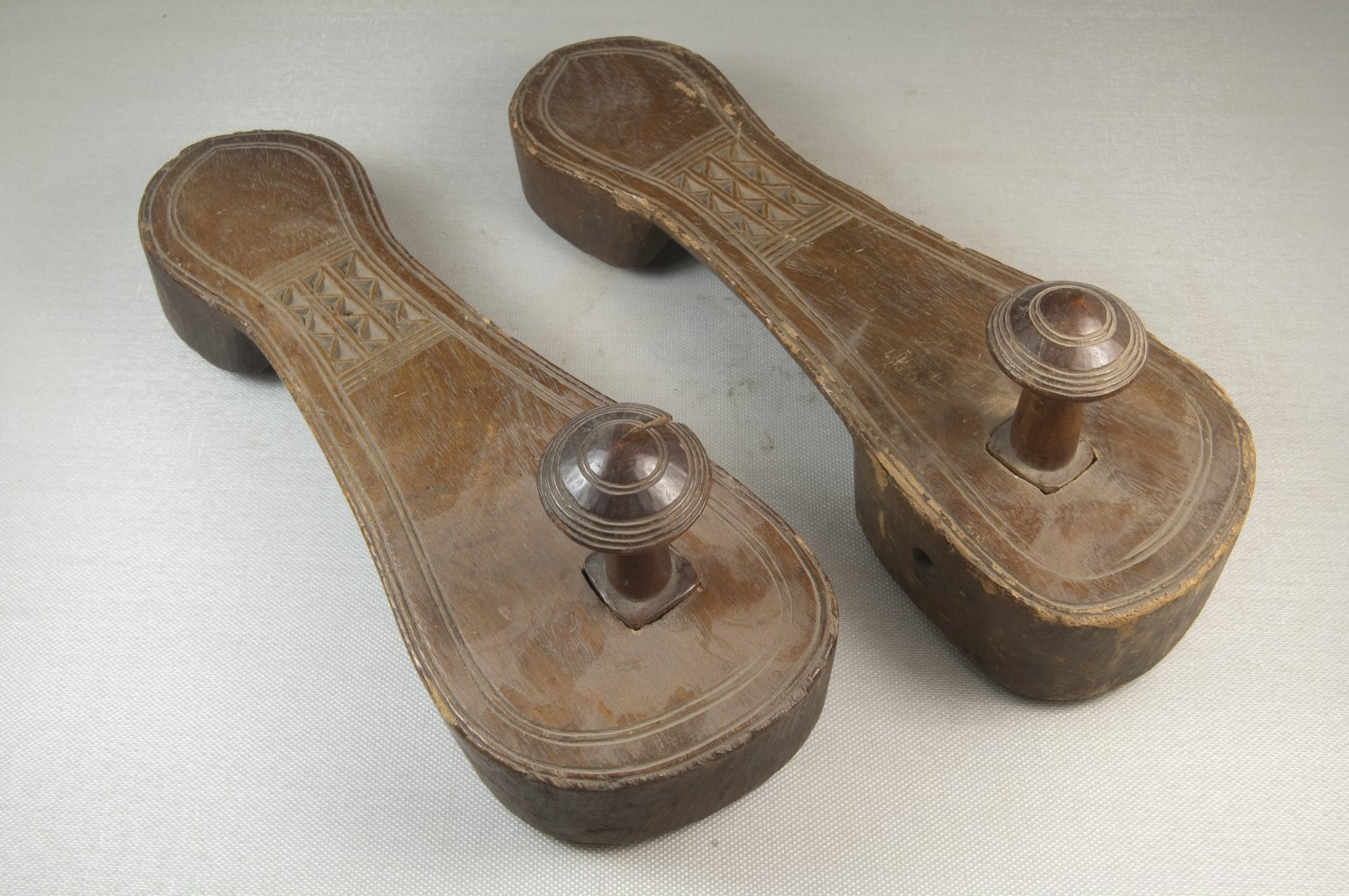 Wooden clogs shaped like the sole of a foot. The soles are supported by raised platforms at front and heel. Cylindrical toe grips are topped by rounded knobs. Linear and geometric engravings decorate top surfaces.